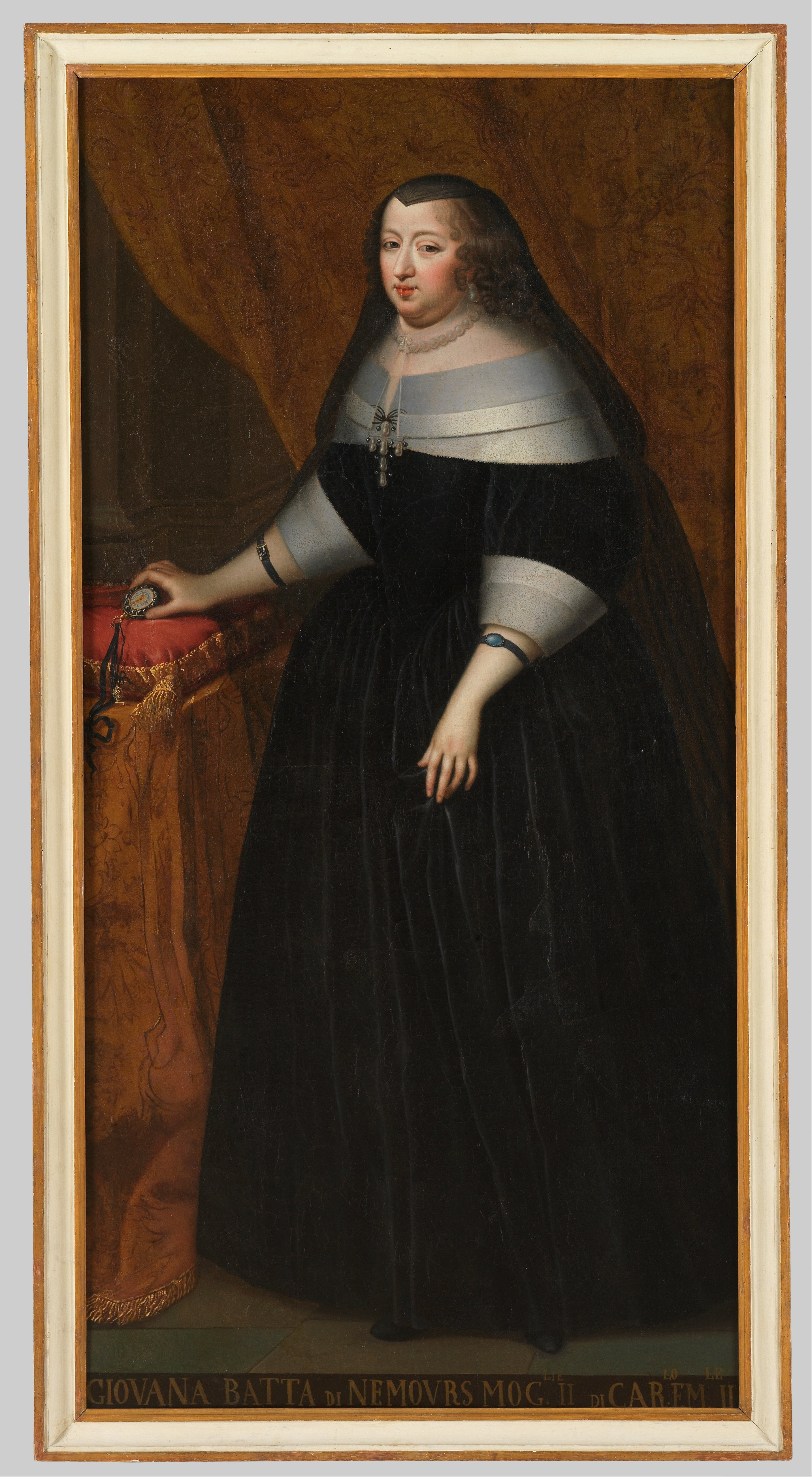 portait of Maria Giovanna Battista